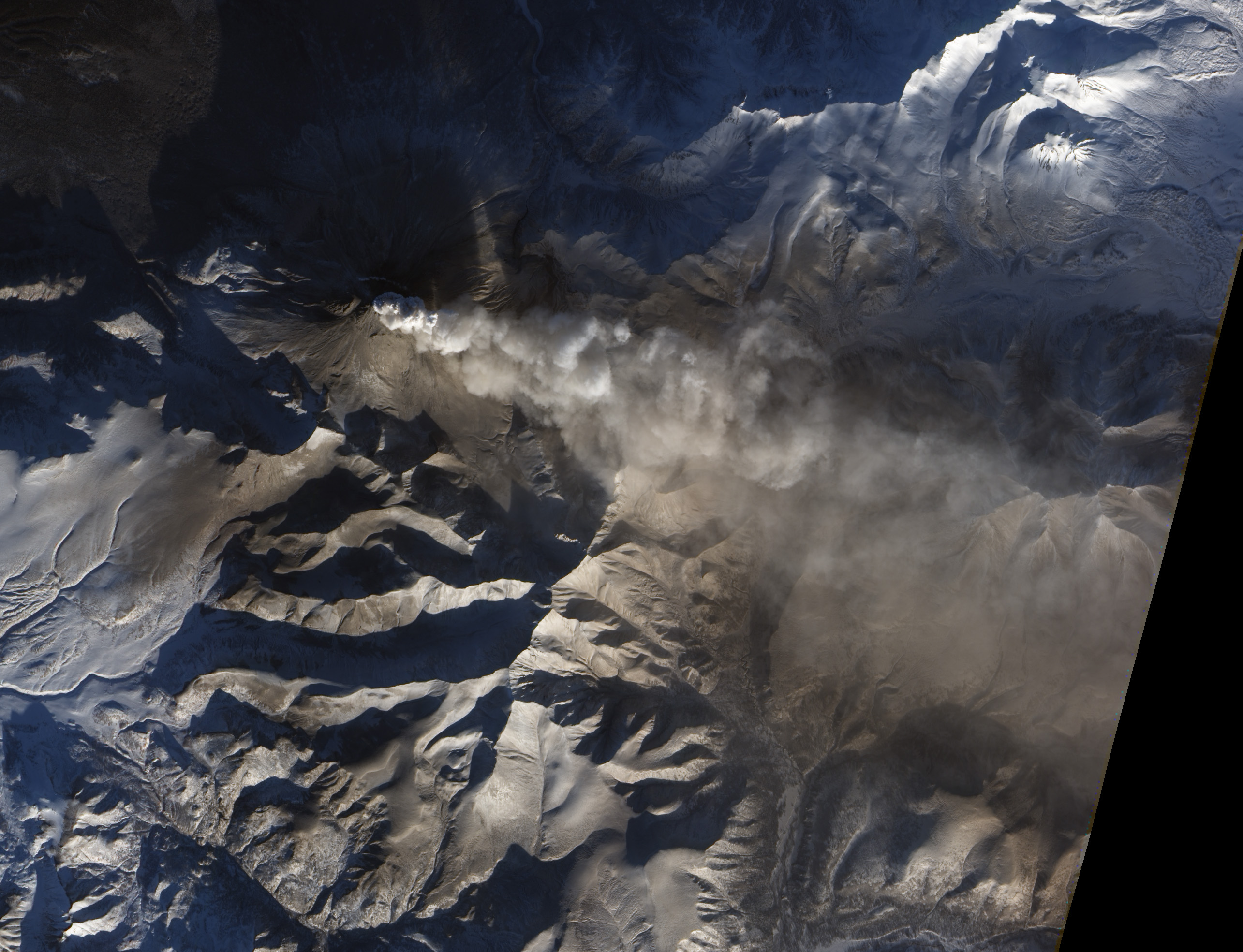 Satellite image of plume of volcanic ash rising from Kizimen Volcano on the Kamchatka Peninsula in Russia.